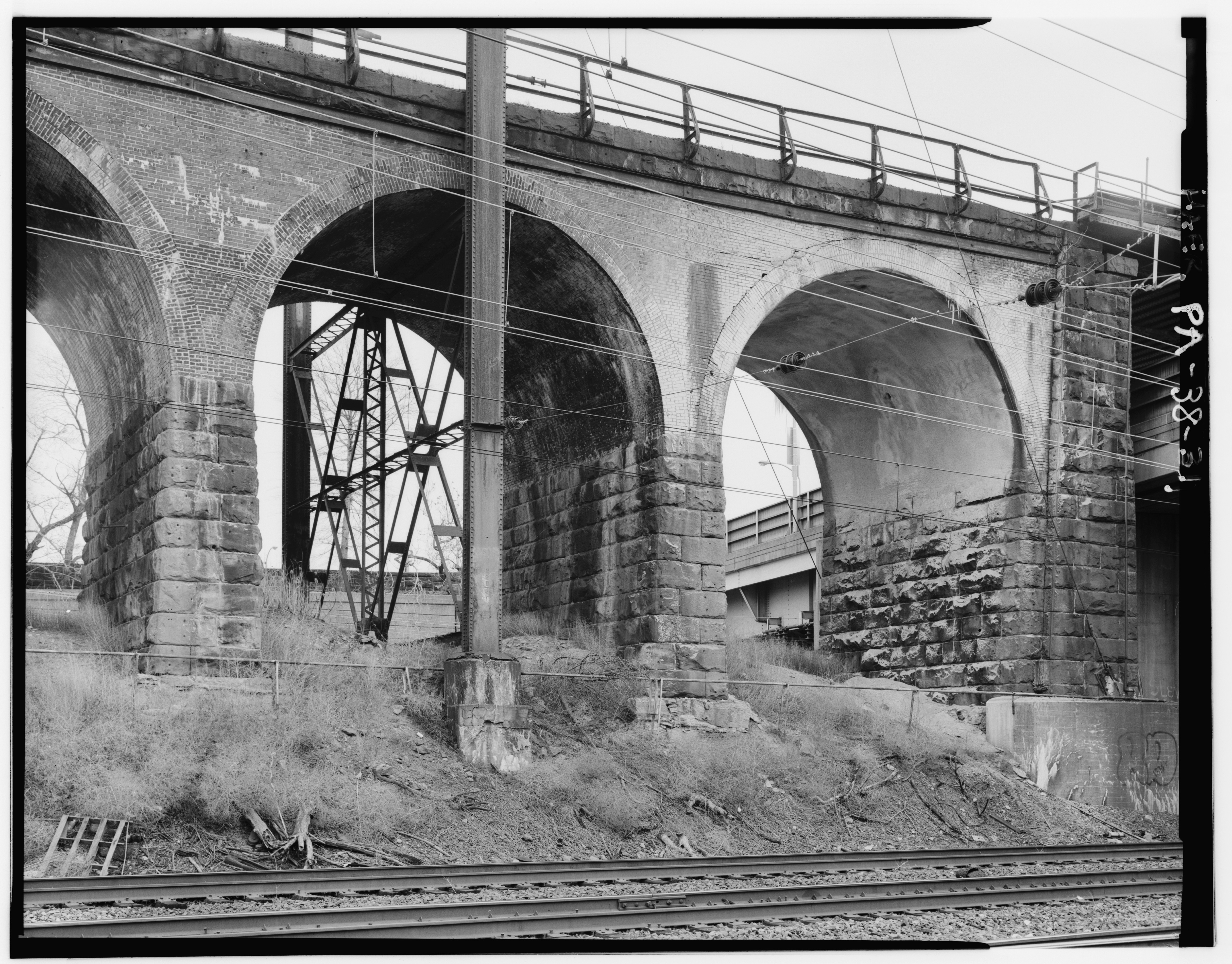 Detail view of two bridge arches of the West Philadelphia Elevated in Philadelphia, Pennsylvania. The 30 brick arches have a total length of 320 meters, so they are forming the longest bridge made of brick throughout the United States.